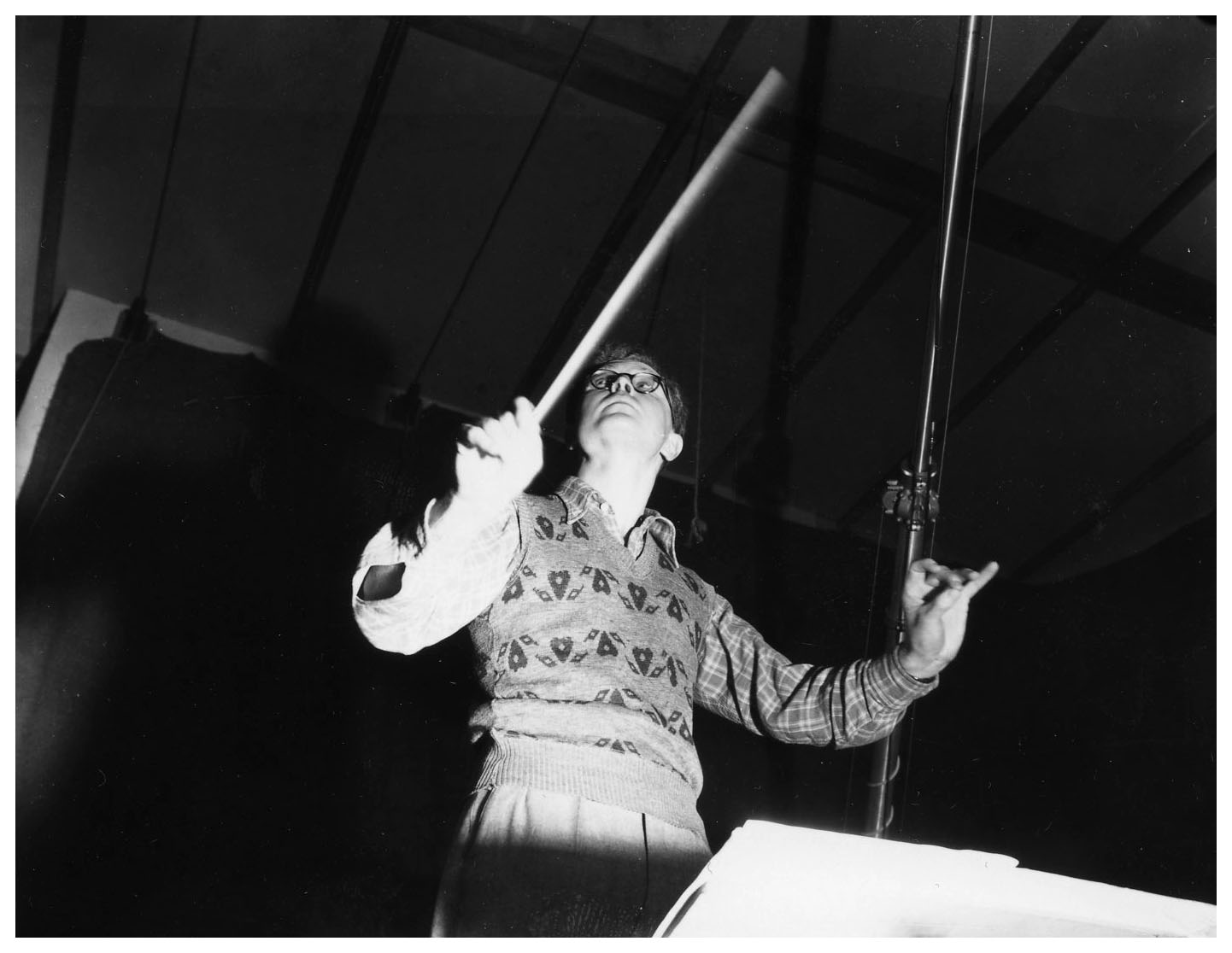 Douglas Lilburn (Order of New Zealand) was born in Whanganui on the 2nd November 1915. Until his death in 6 June 2001, he was New Zealand’s preeminent composer, often referred to as the “grandfather of New Zealand music”. He attended the Royal College of Music, London, where he studied under Ralph Vaughan Williams. Upon his return to New Zealand, he taught and worked as a freelance composer in Christchurch, before moving to Wellington to teach at Victoria University. In 1963 he founded the electronic music studio, the first of its kind in Australasia. In his later years Lilburn helped establish the Alexander Turnbull Library Archive of New Zealand Music, alongside the Lilburn Trust. This was in an effort to both preserve New Zealand’s musical heritage and to foster young artist to develop New Zealand’s musical future. This photo comes from the Weekly Review No. 332 (1948) . It is captioned “ Douglas Lilburn , composer of special music for a film on New Zealand backblock medical services, is shown directing members of the National Symphony Orchestra.” Reference: AAPG 25263 W3939 24/D.4 (R2843859) For updates on our On This Day series and news from Archives New Zealand, follow us on Twitter Material from Archives New Zealand